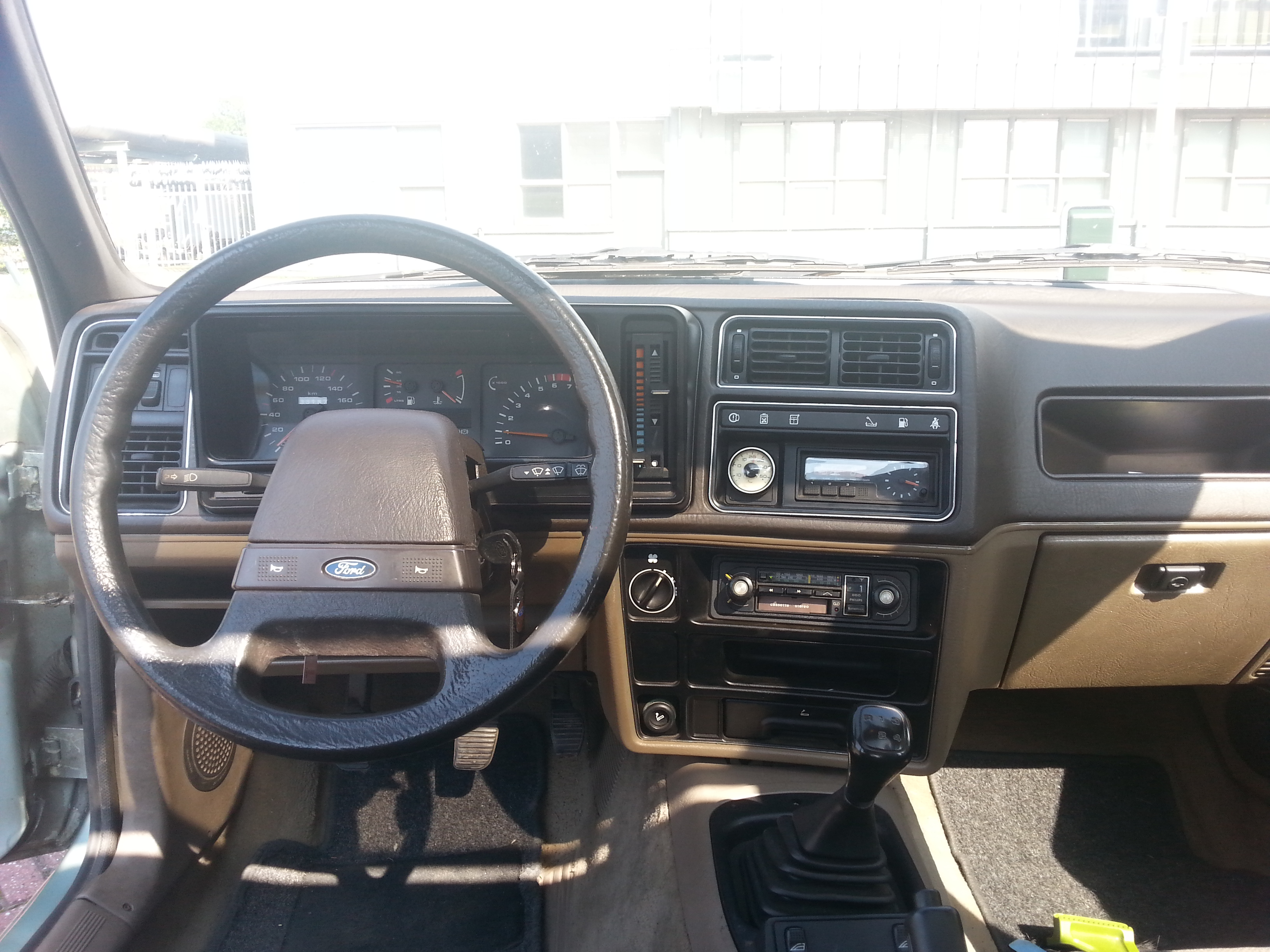 This is the dashboard of an early 1983 Ford Sierra GL-model.